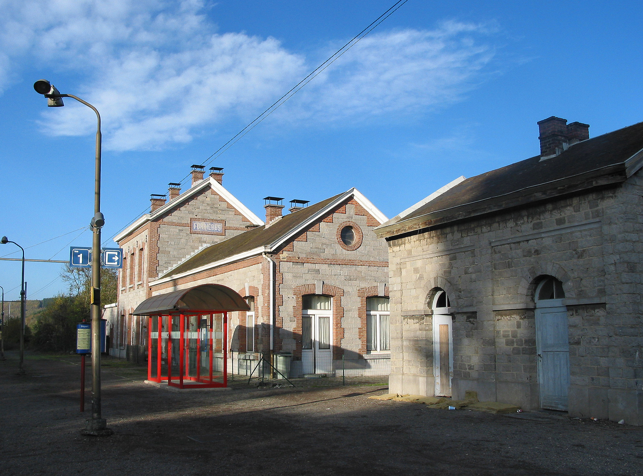 Forrières (Belgium), the railway station.